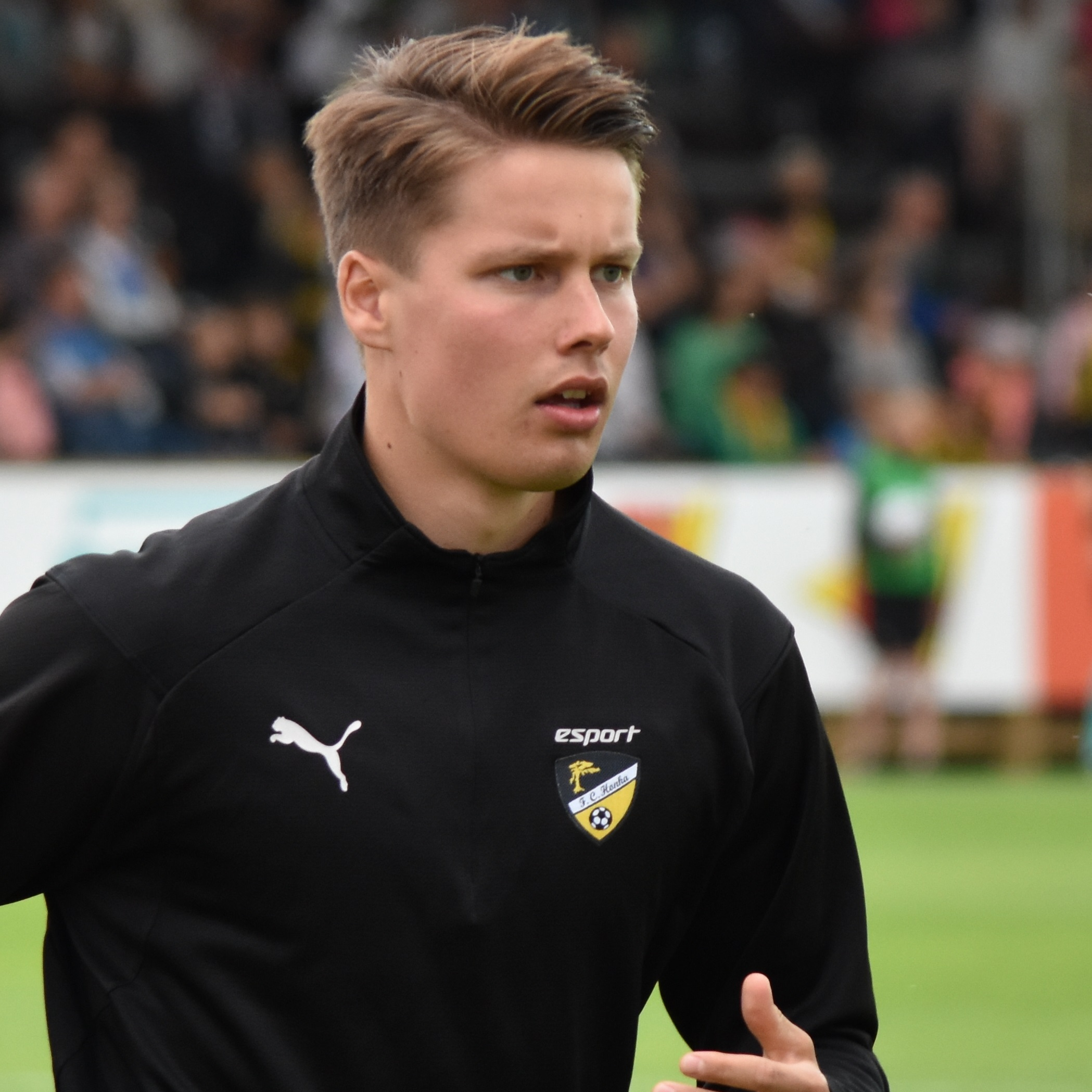 Association football player Tommi Saarinen (FC Honka)